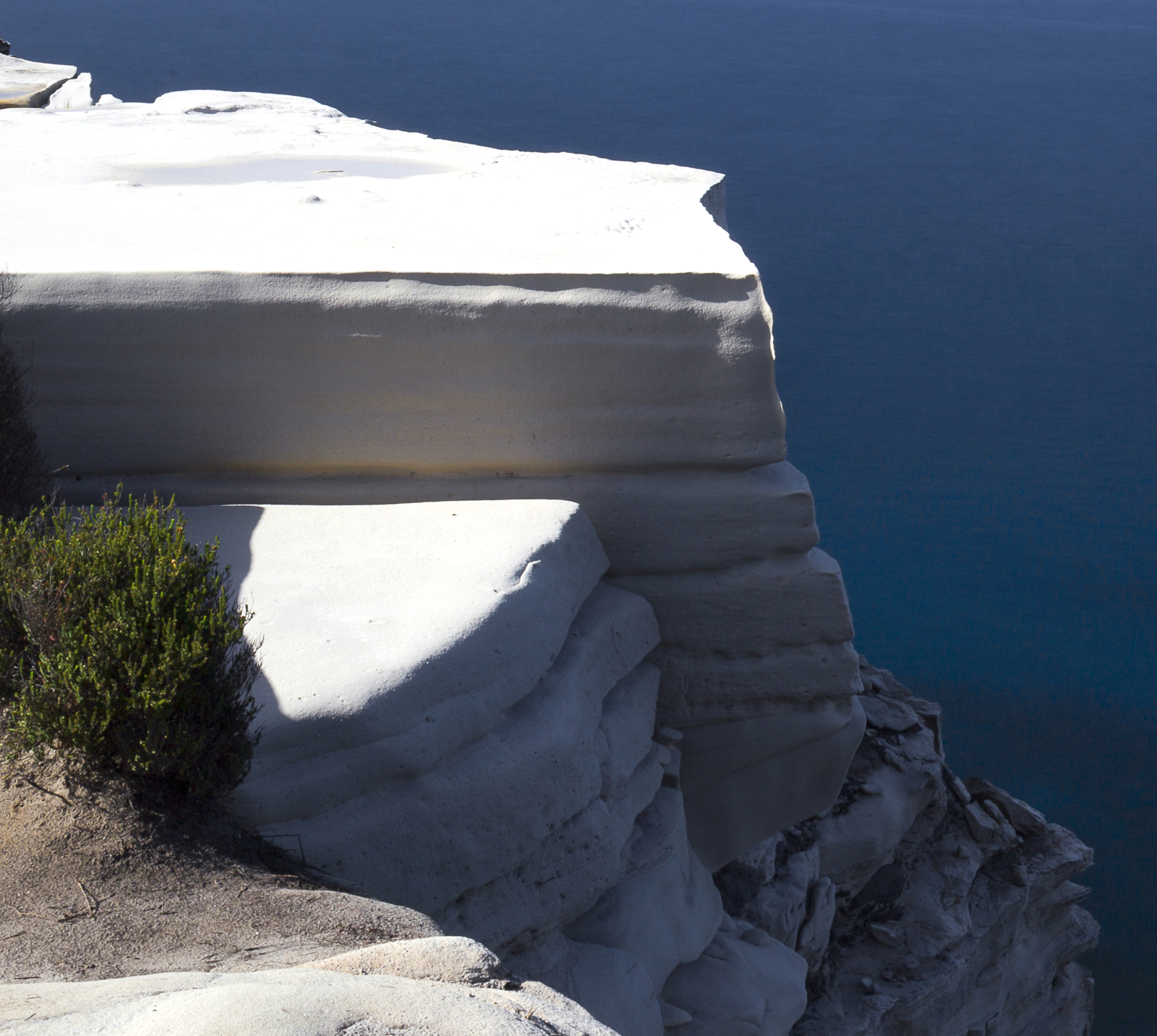 Cropped and edited version of a photograph by Anthony Hugo of Wedding Cake Rock from a cliff side south of the landmark, showing the erosion underneath the rock. Brightness contrast and colour saturation was modified in Gimp 2.10.4 to try to emulate how the landmark would look to the human eye.